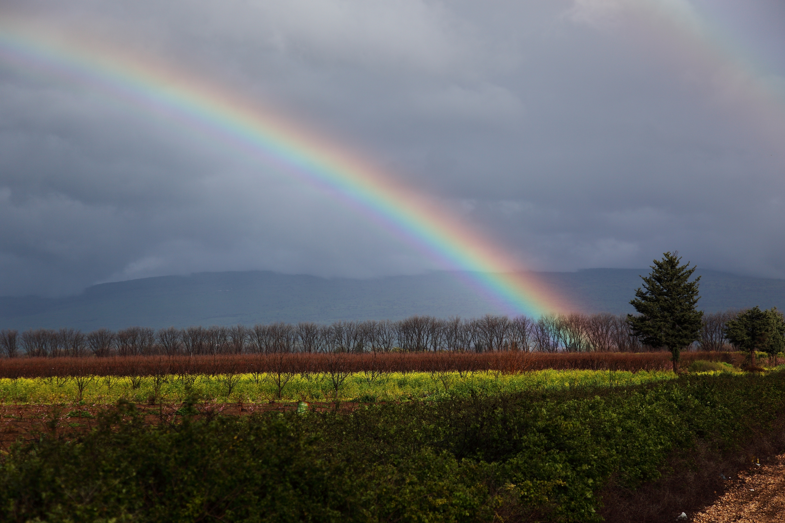 Nature and Colors